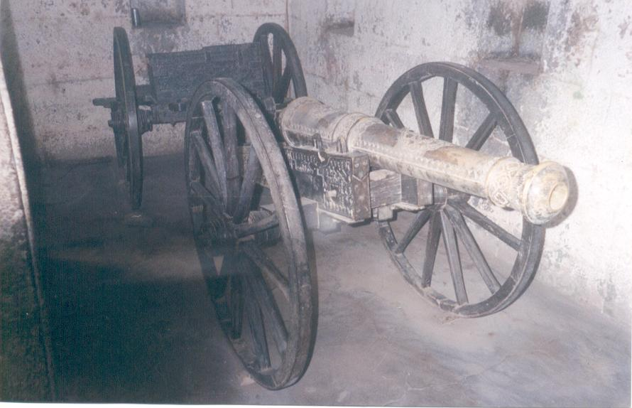 Old Citadel know as Shaniwar Wada